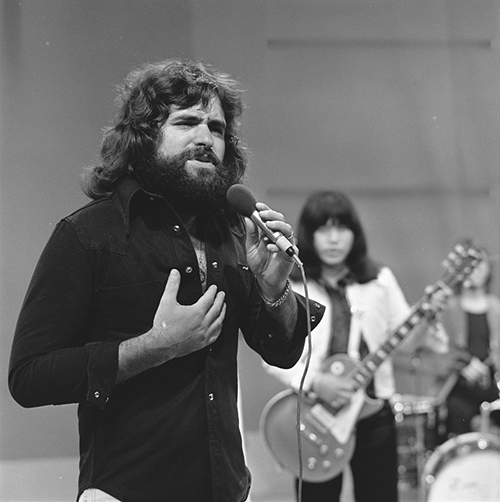 George Baker in AVRO's TopPop (Dutch television show) in 1974